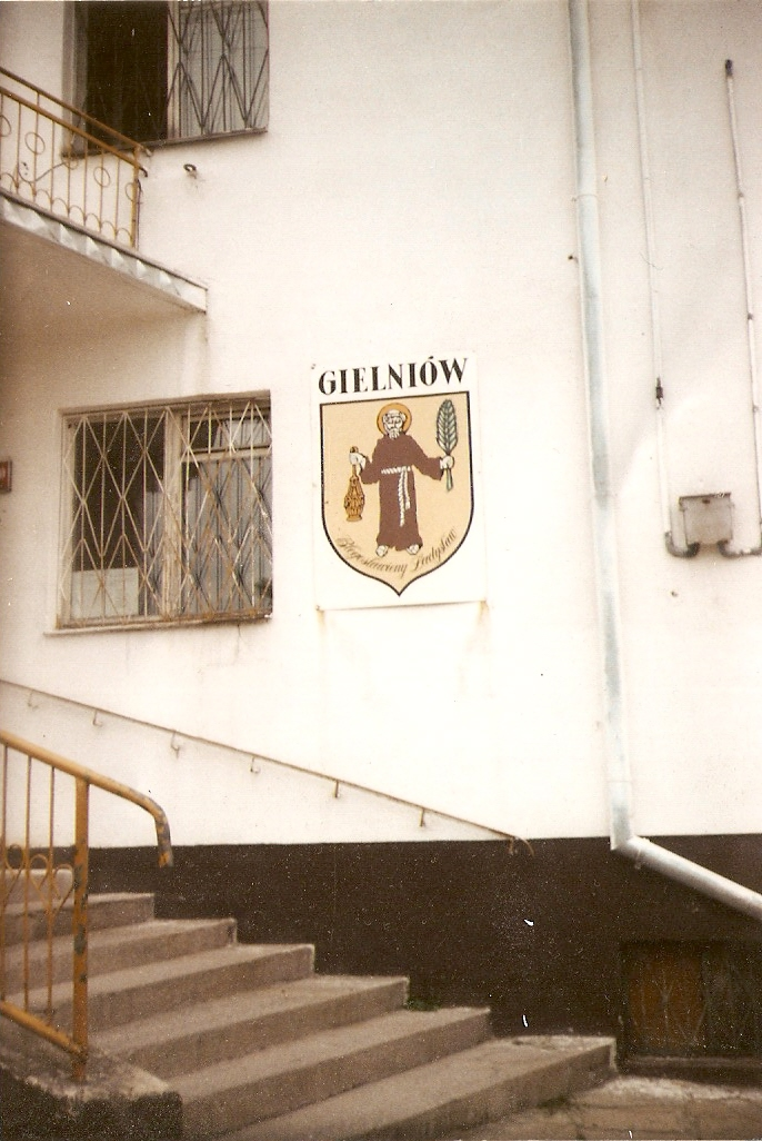 Coat of arms of gmina Gielniów